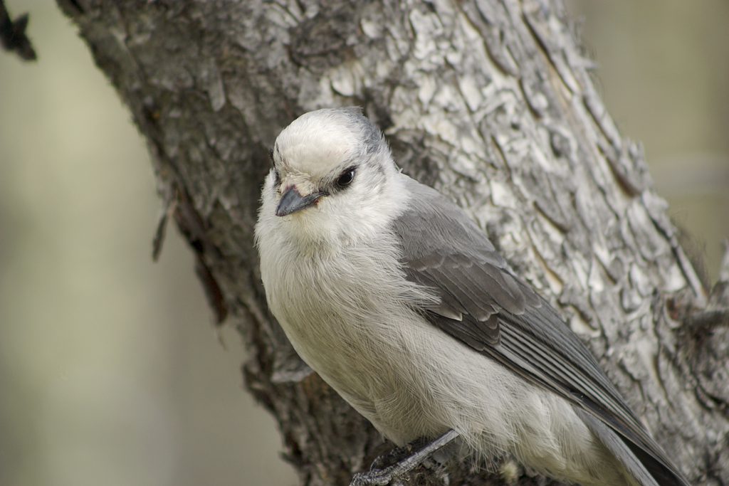 Perisoreus canadensis subspecies capitalis, Grand Tetons, Wyoming.